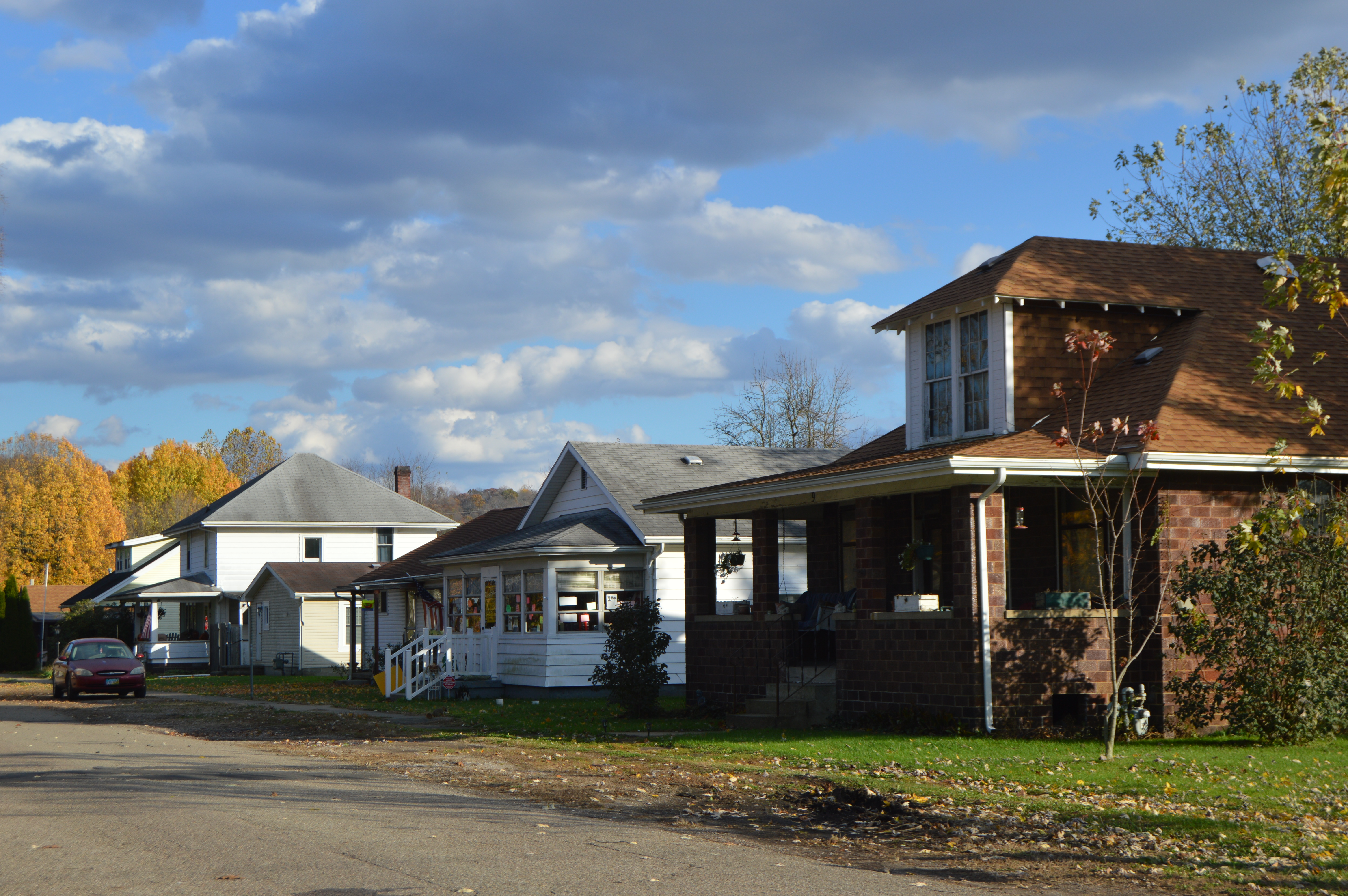 Houses on the southern side of Jacobs Street east of the Monroe Street intersection in Chauncey, Ohio, United States.